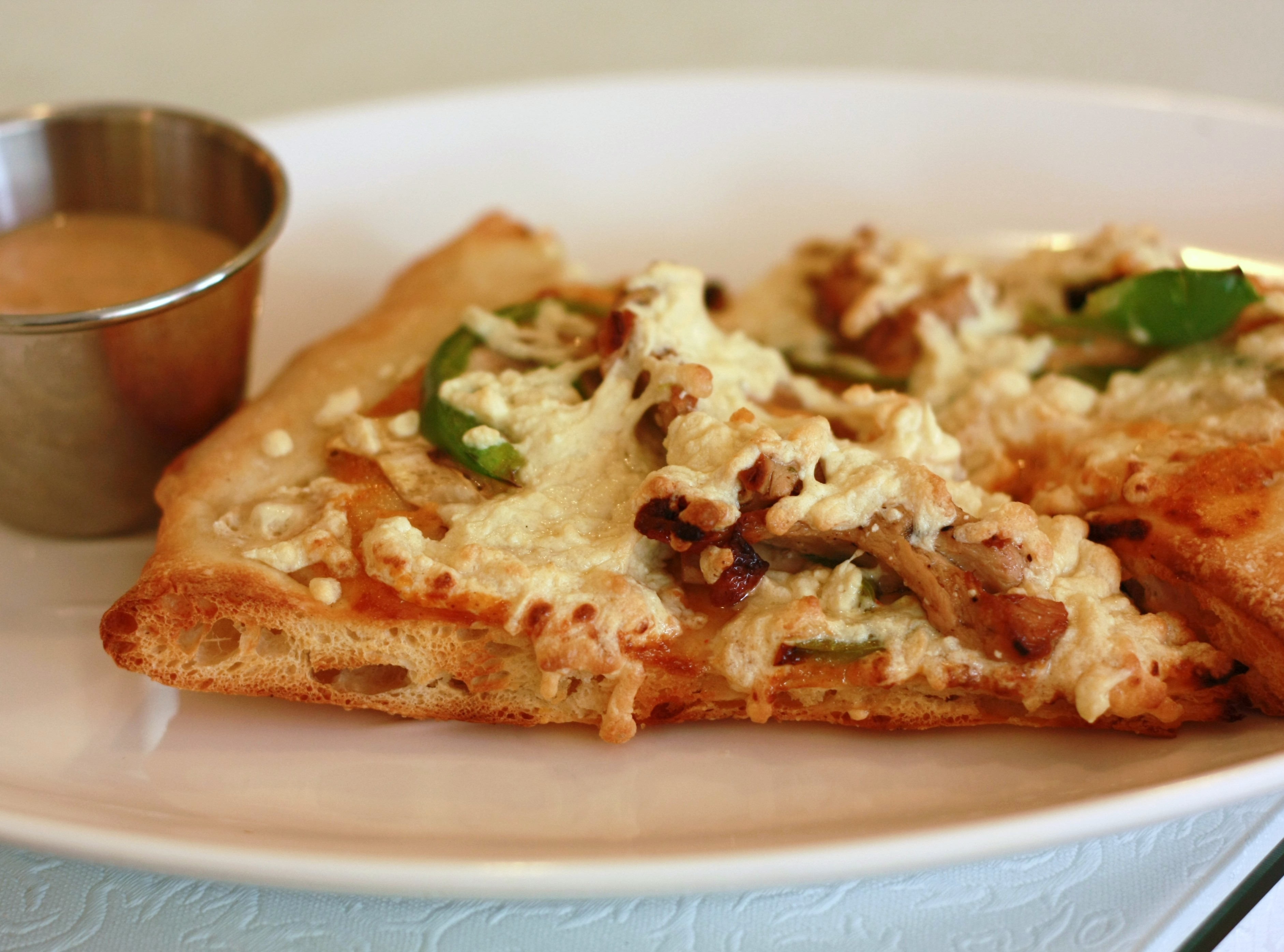 Loving Hut Pizza with Daiya Vegan Cheese ~ Featured on Sweet On Veg.